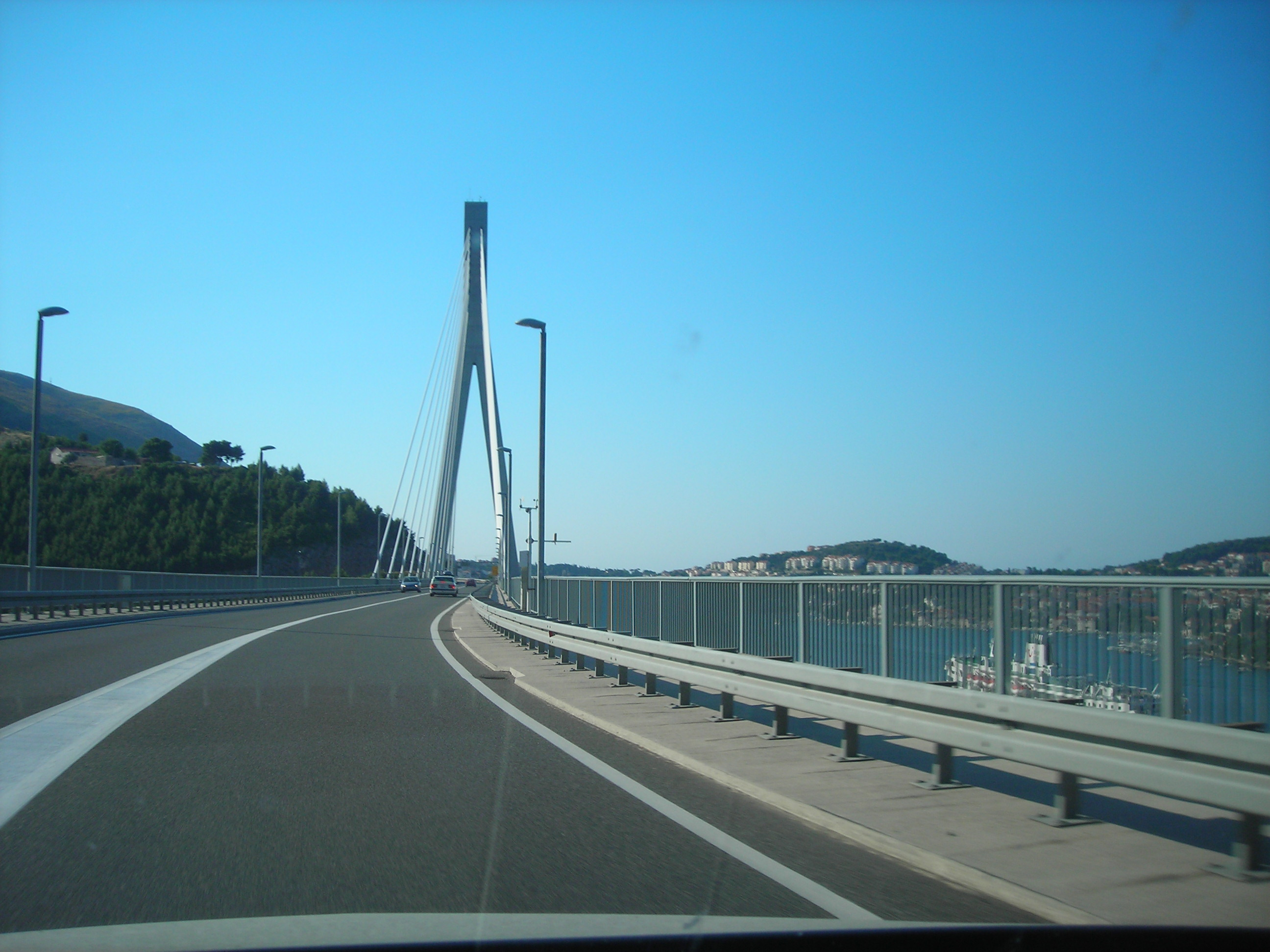 Road bridge on road 8/E65 north of Dubrovnik, Croatia